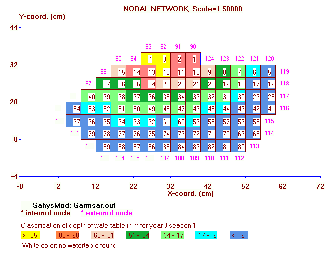 Map of watertable simulated by SahysMod